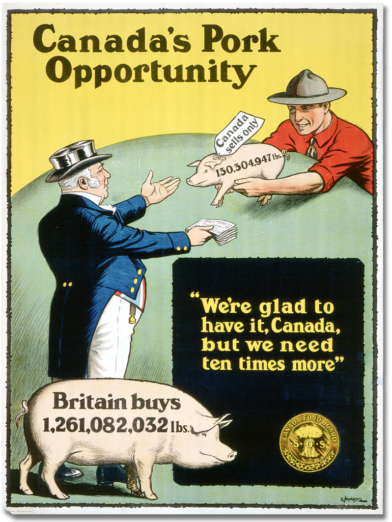 "Canada's Pork Opportunity".